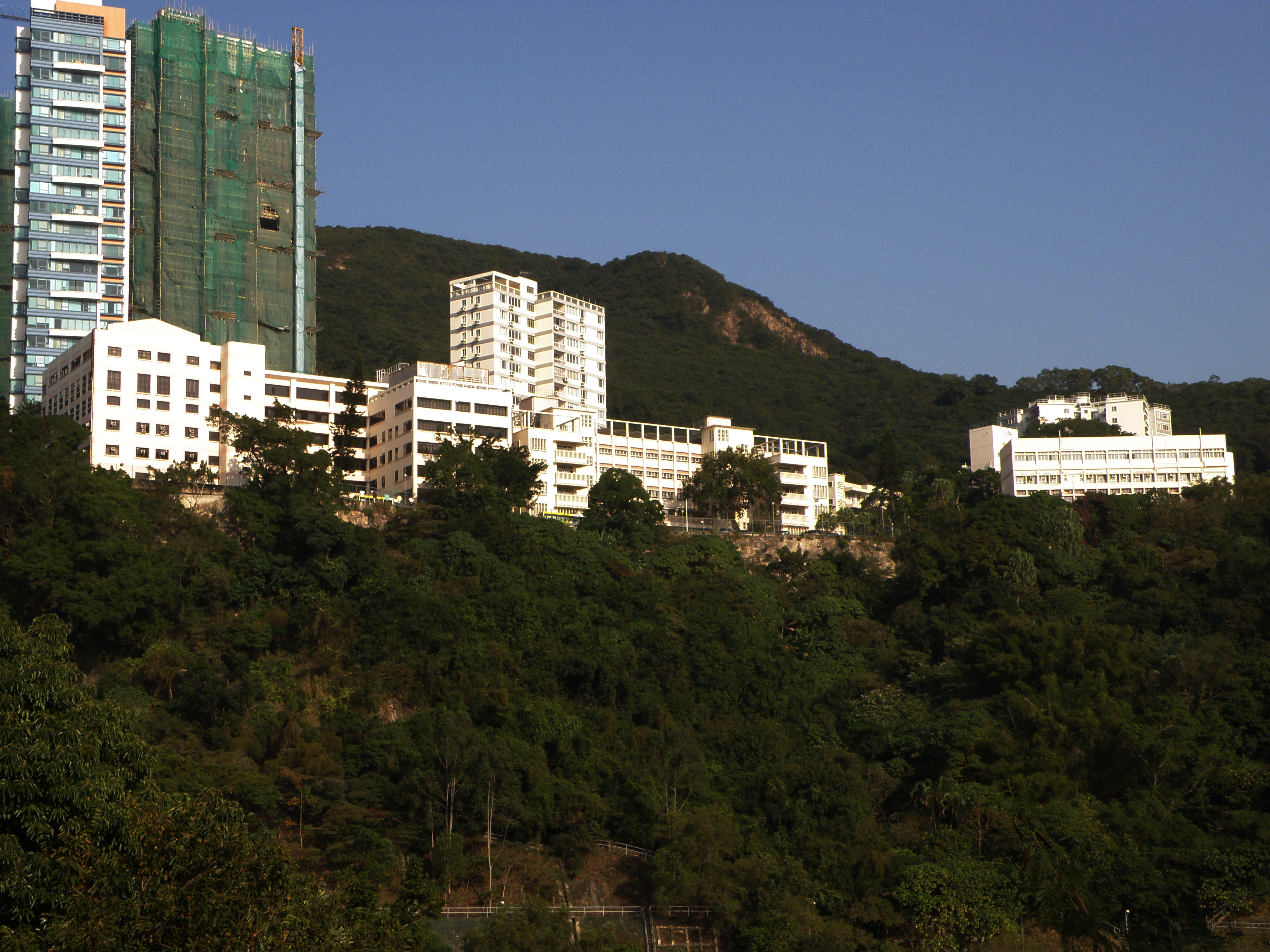 Ebenezer School & Home for the Visually Impaired in Pok Fu Lam, Hong Kong.